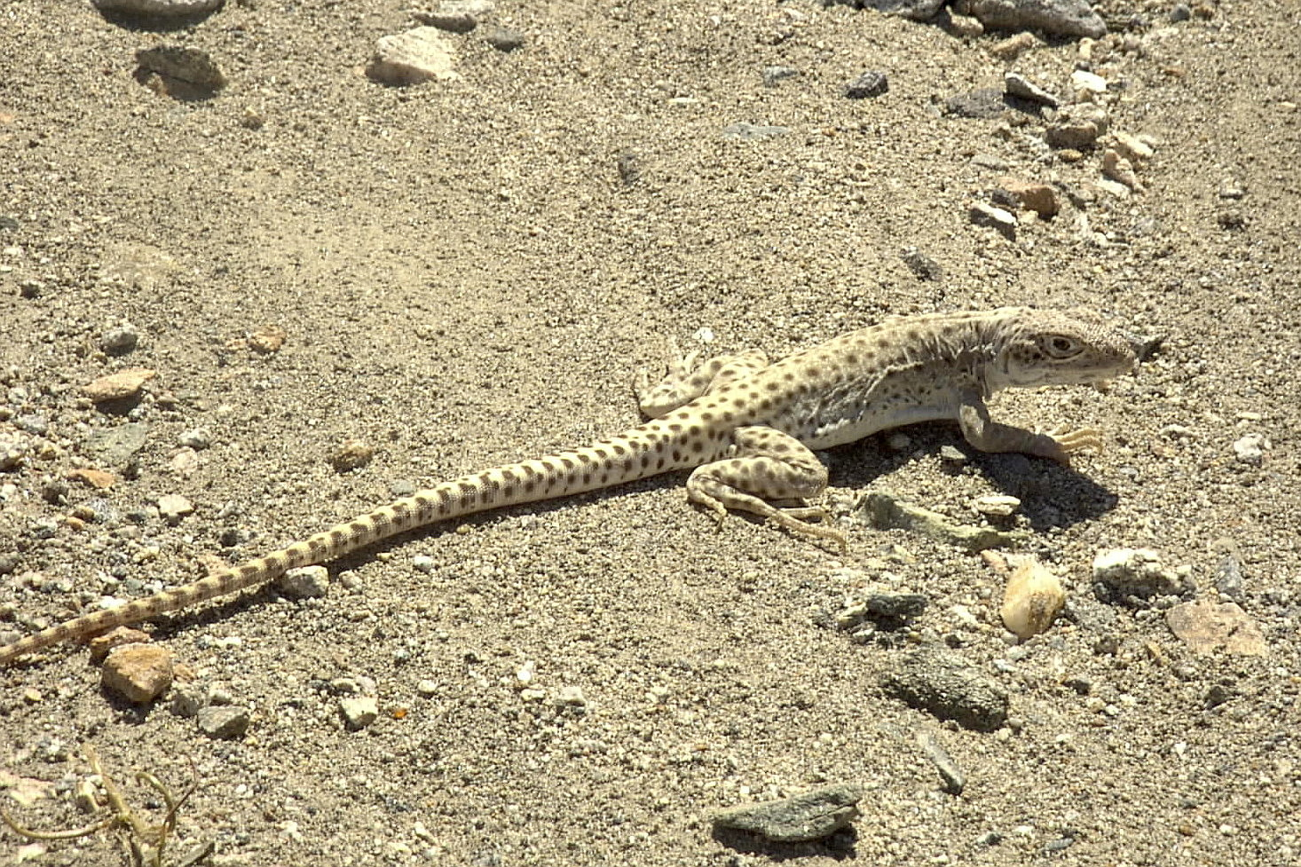 Long-nosed Leopard Lizard Gambelia wislizenii. Mojave Desert, CA, USA.